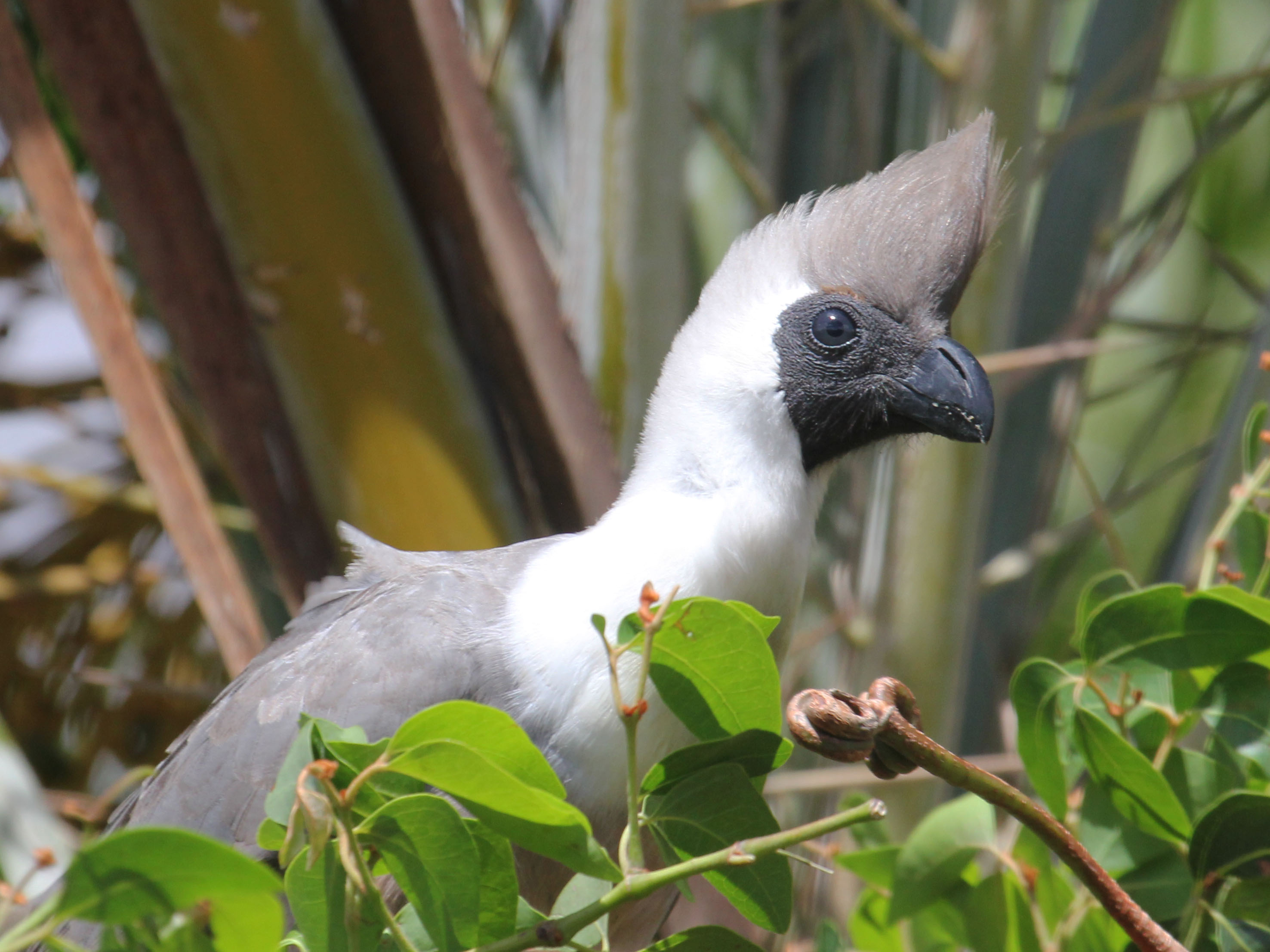 Bare-faced Go-away-bird (Corythaixoides personatus) - Keekorok Lodge in the Masai Mara, Kenya